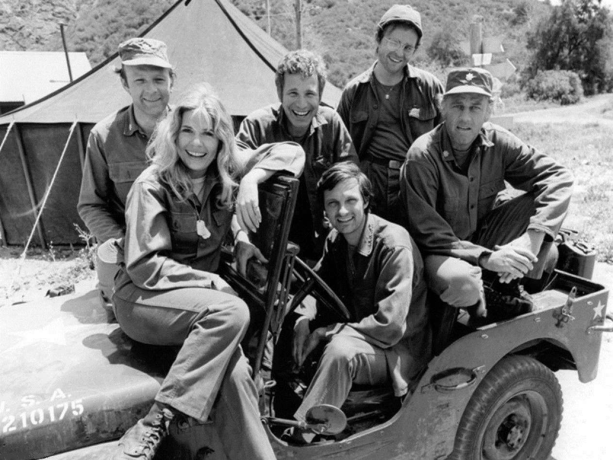 Publicity photo from the M*A*S*H season premiere, 1974. Pictured are: Loretta Swit, Larry Linville, Wayne Rogers, Gary Burghoff, Alan Alda (driver of jeep), and McLean Stevenson.